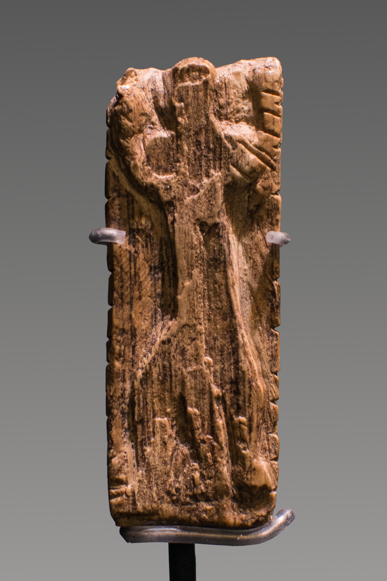 The Adorant, from the Abri Geißenklösterleat Blaubeuren, horizon II b. Mammoth ivory, Height 38 mm, width 14 mm, thickness 4.5 mm, State Office for Historic Preservation, Baden-Württemberg